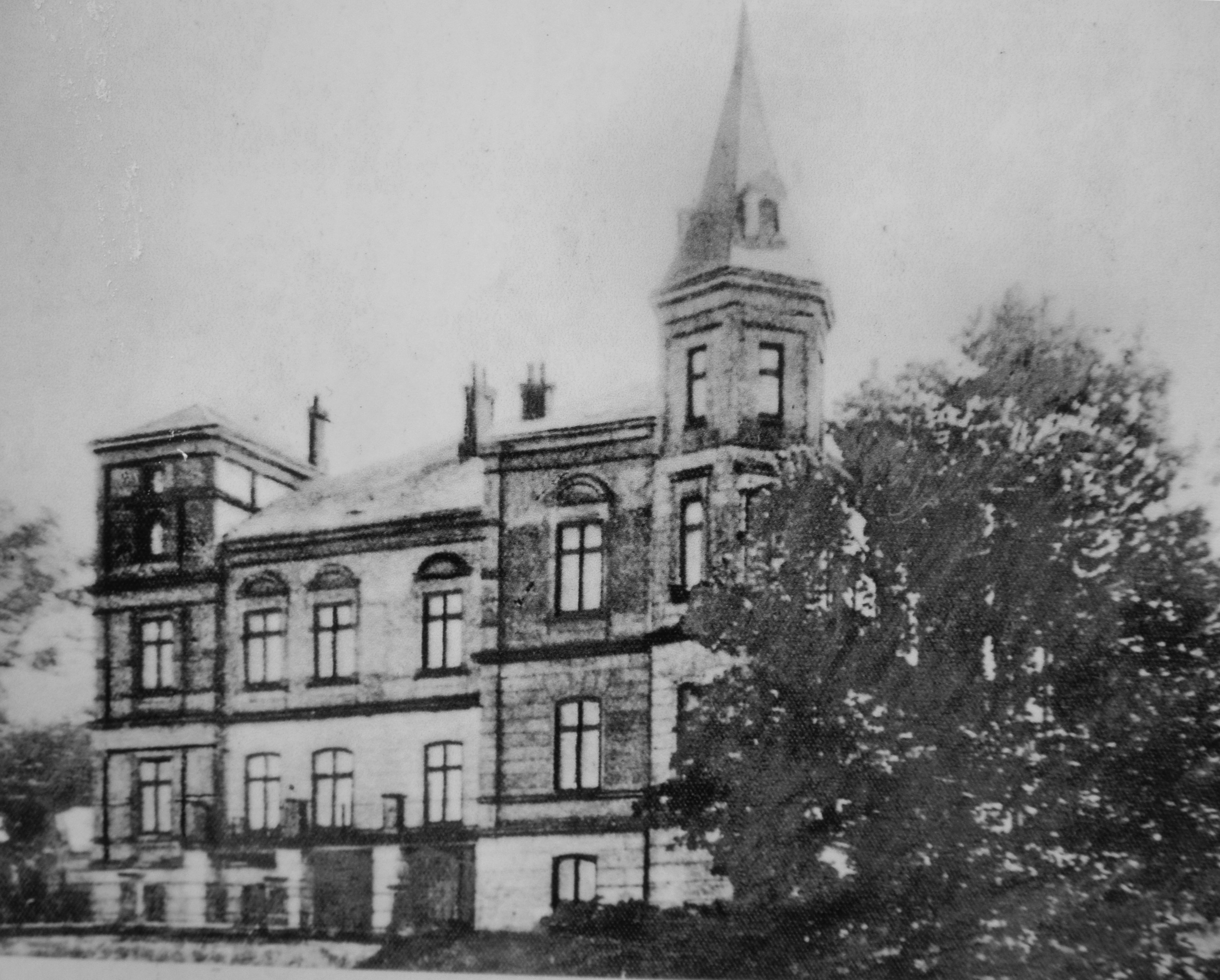 Former Castle in Glave in Mecklenburg-Vorpommern